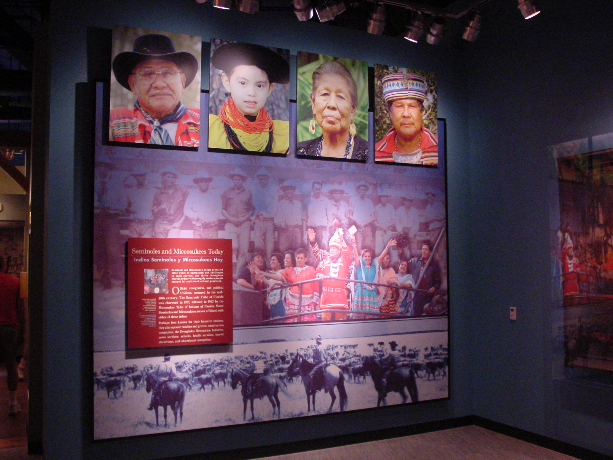 Seminoles and Miccosukees Today display at the Tampa Bay History Center in Tampa, Florida.